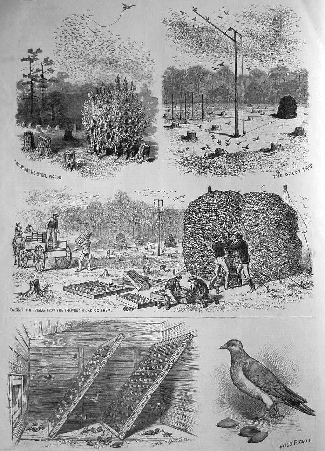 Newspaper spread showing methods of capturing passenger pigeons for shooting contests. Originally captioned: "The sportsmen’s tournament at Coney Island. Methods of trapping and transporting the pigeons for use in the contests. From sketches by a staff artist."